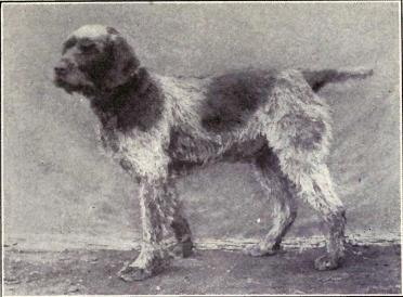 Griffon-Korthals from 1915